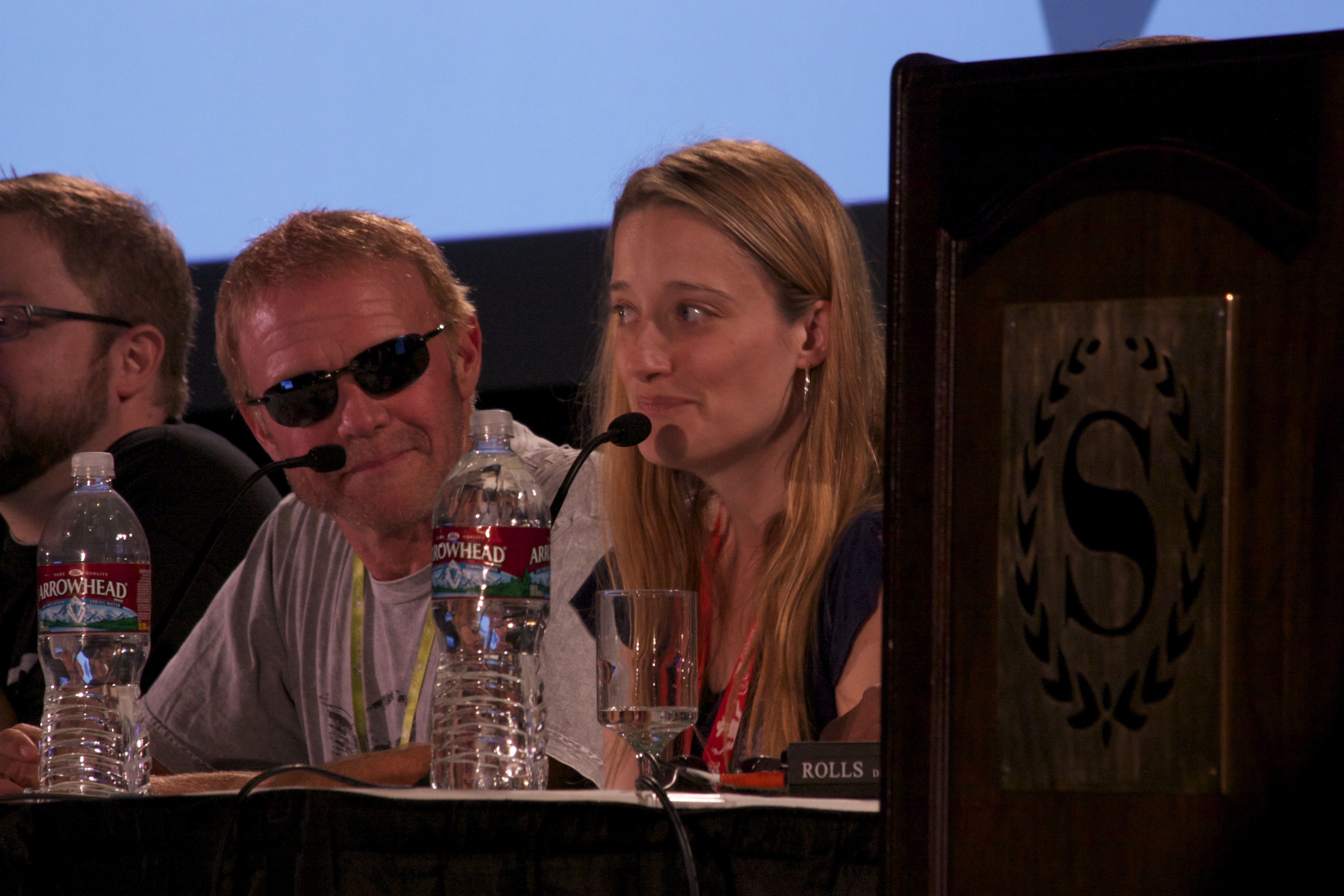 Steve Downes (Master Chief) and Jen Taylor (Cortana) met for the very first time at this panel!